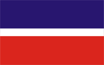 RENAMO second flag